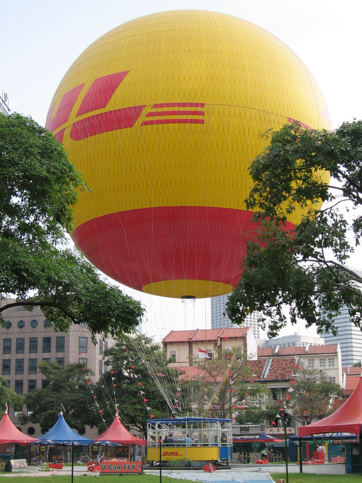 The DHL Balloon on Rochor Road. Taken by User:Sengkang of ENglish.Wikipedia in Aug 2006.